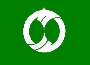 Flag of Karumai Iwate